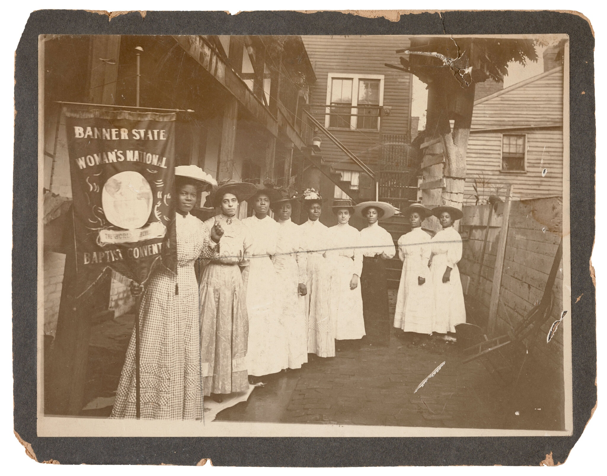 Nannie Helen Burroughs, an African American educator, orator, religious leader, and business women holding a Woman's National Baptist Convention banner.